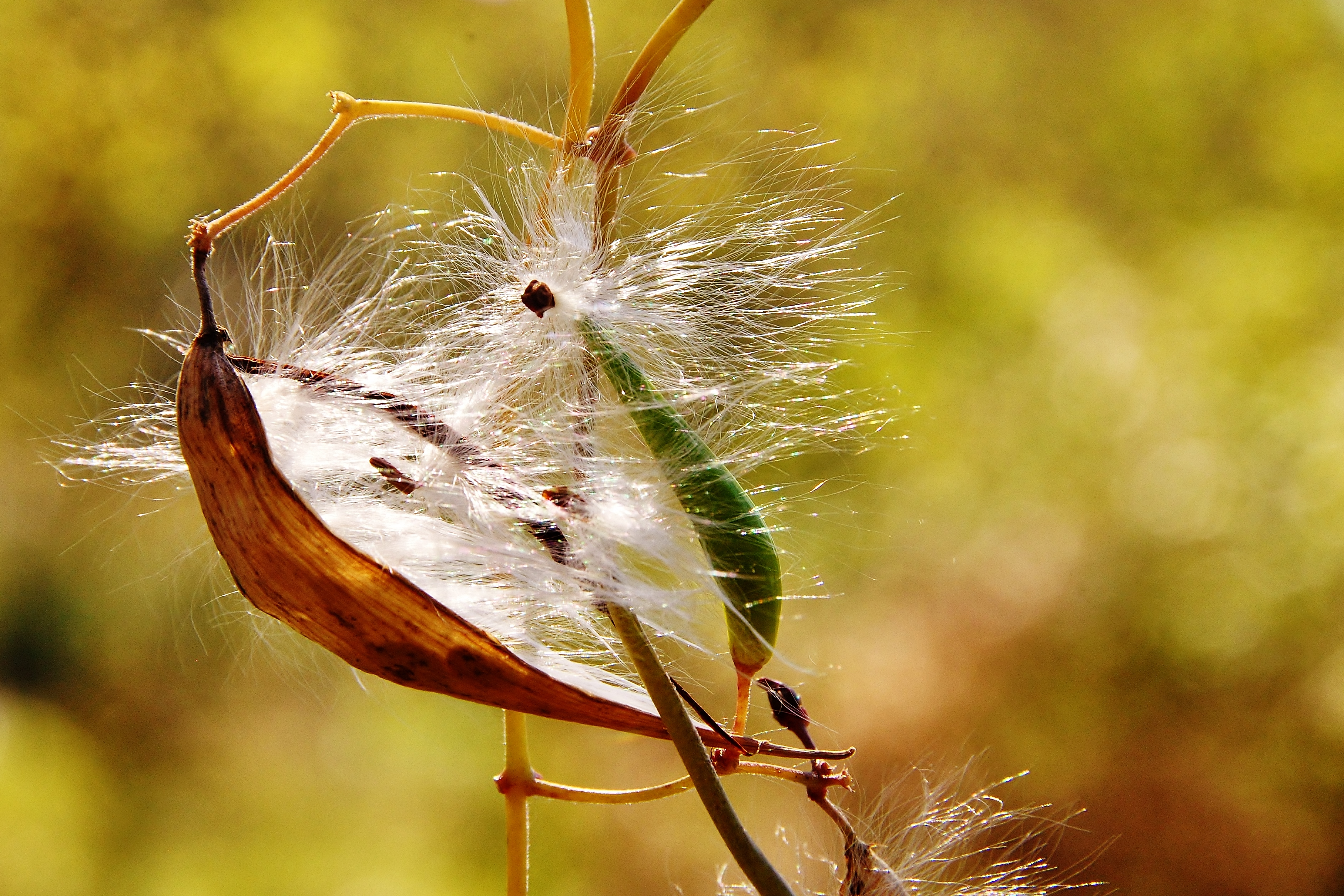 Seeds of Vincetoxicum rossicum in October. Toronto, bank of Humber River, Canada